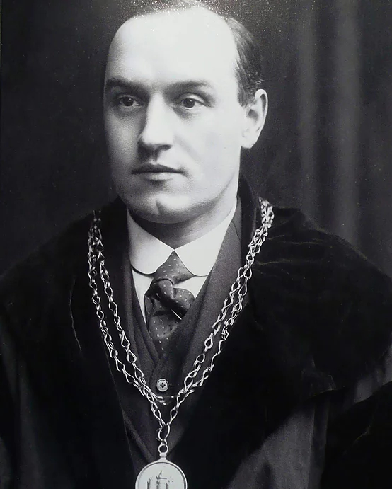 Photograph of Irish politician Peter de Loughry as Mayor of Kilkenny, circa 1919.